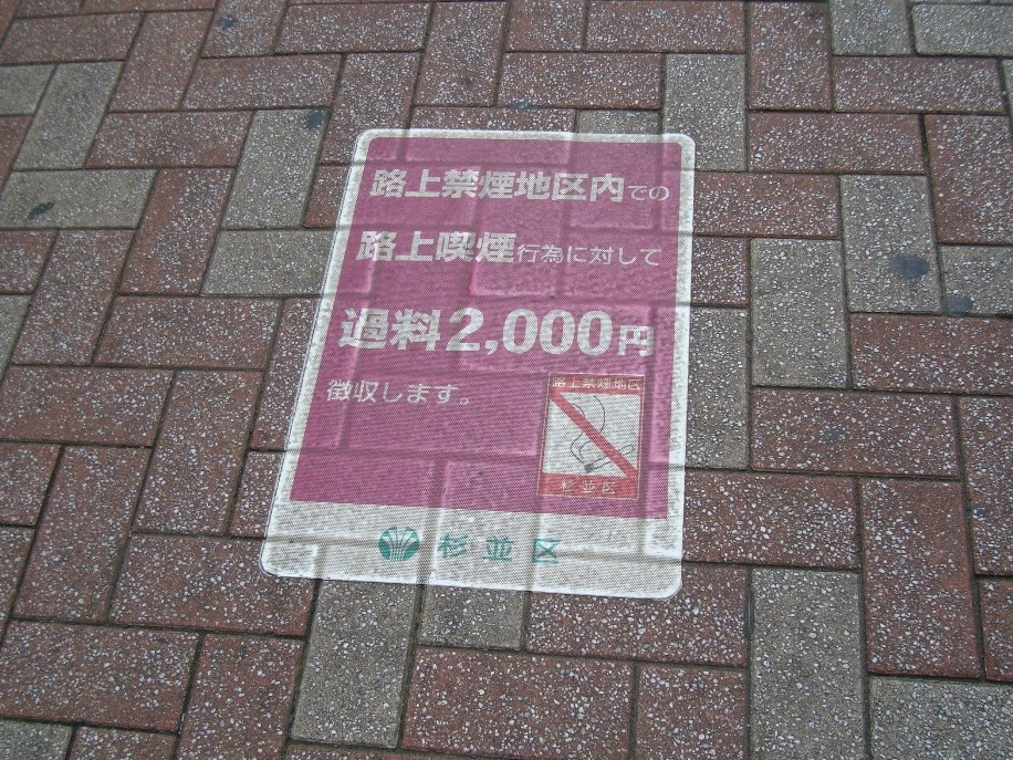 A sign on a pavement saying "2000 yen fine for smoking on this street", Suginami city, Tokyo